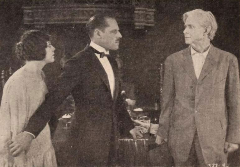 Still from the American drama film After the Show (1921) with Jack Holt, Lila Lee, and Charles Ogle, on page 69 of the October 1, 1921 Exhibitors Herald.